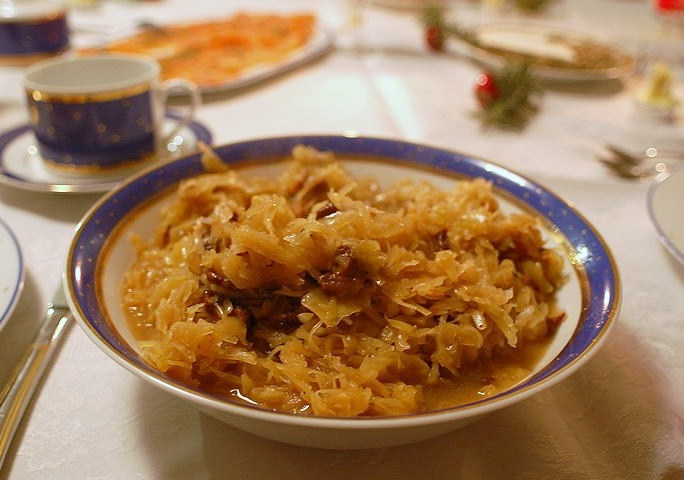 Bigos at Christmas Poland.